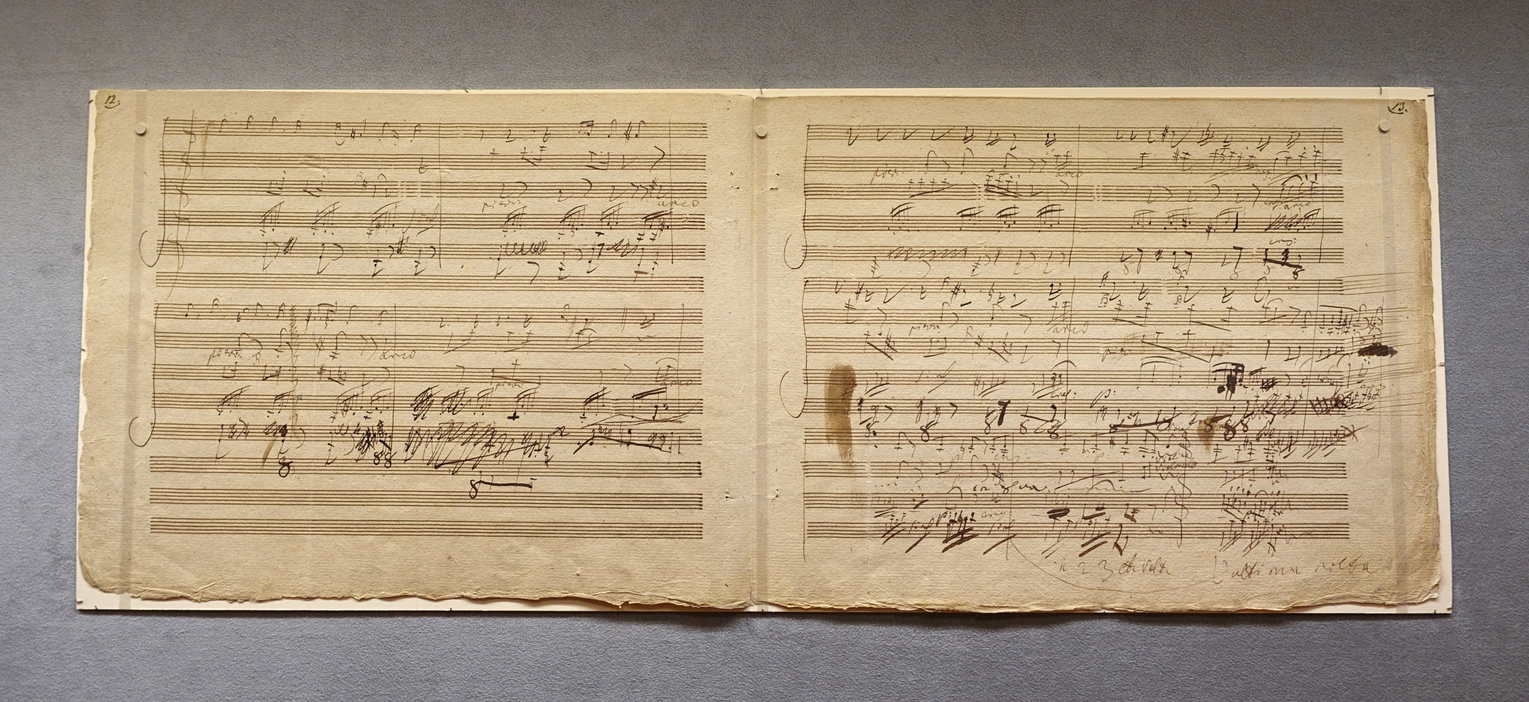 Exhibit in the Morgan Library & Museum - New York City, New York, USA.